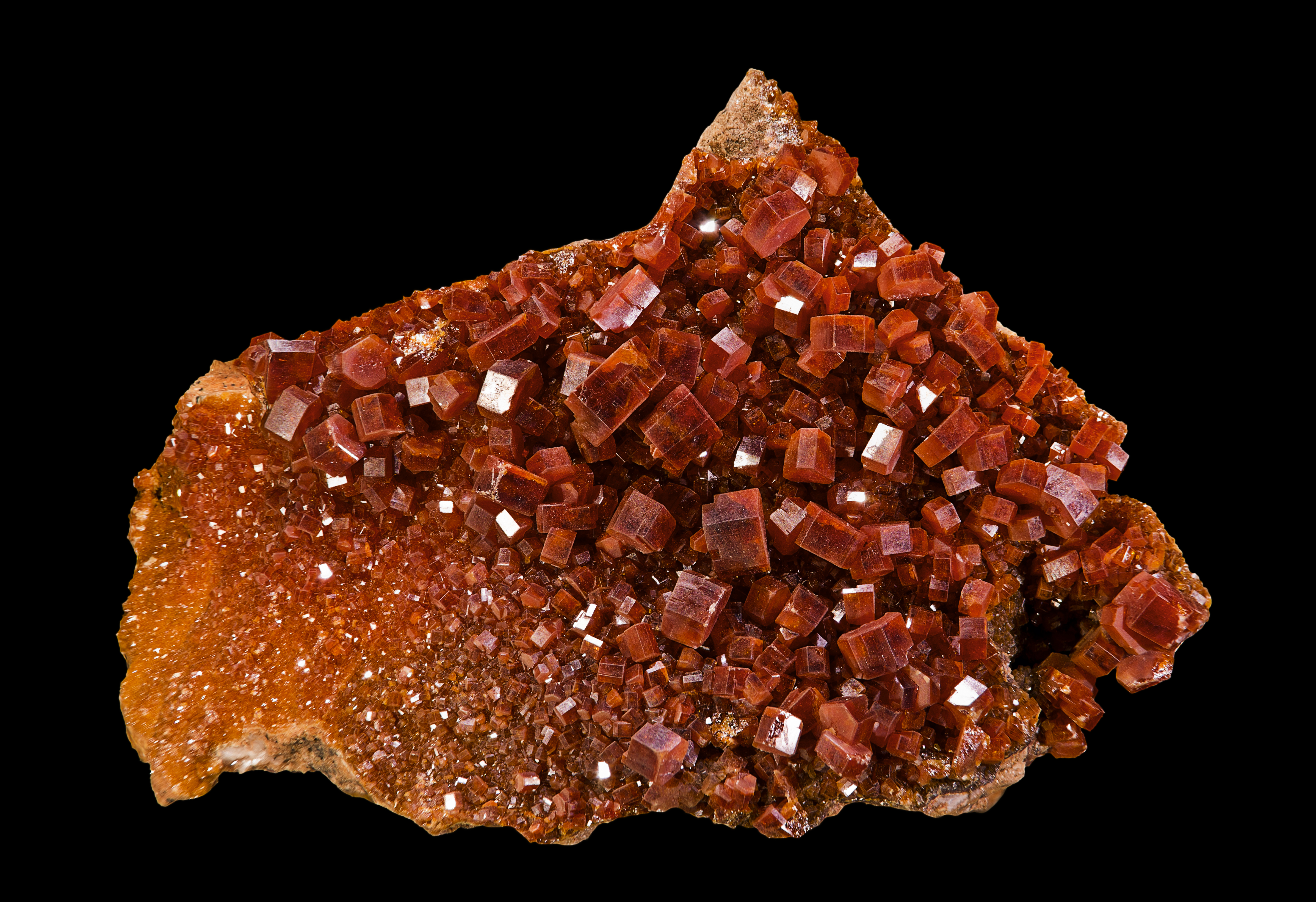 Vanadinite Locality: Mibladene (Mibladén; Mibladan; Miblanden), Upper Moulouya lead district, Midelt, Khénifra Province, Meknès-Tafilalet Region, Morocco Size: 9x6x5.8 cm.